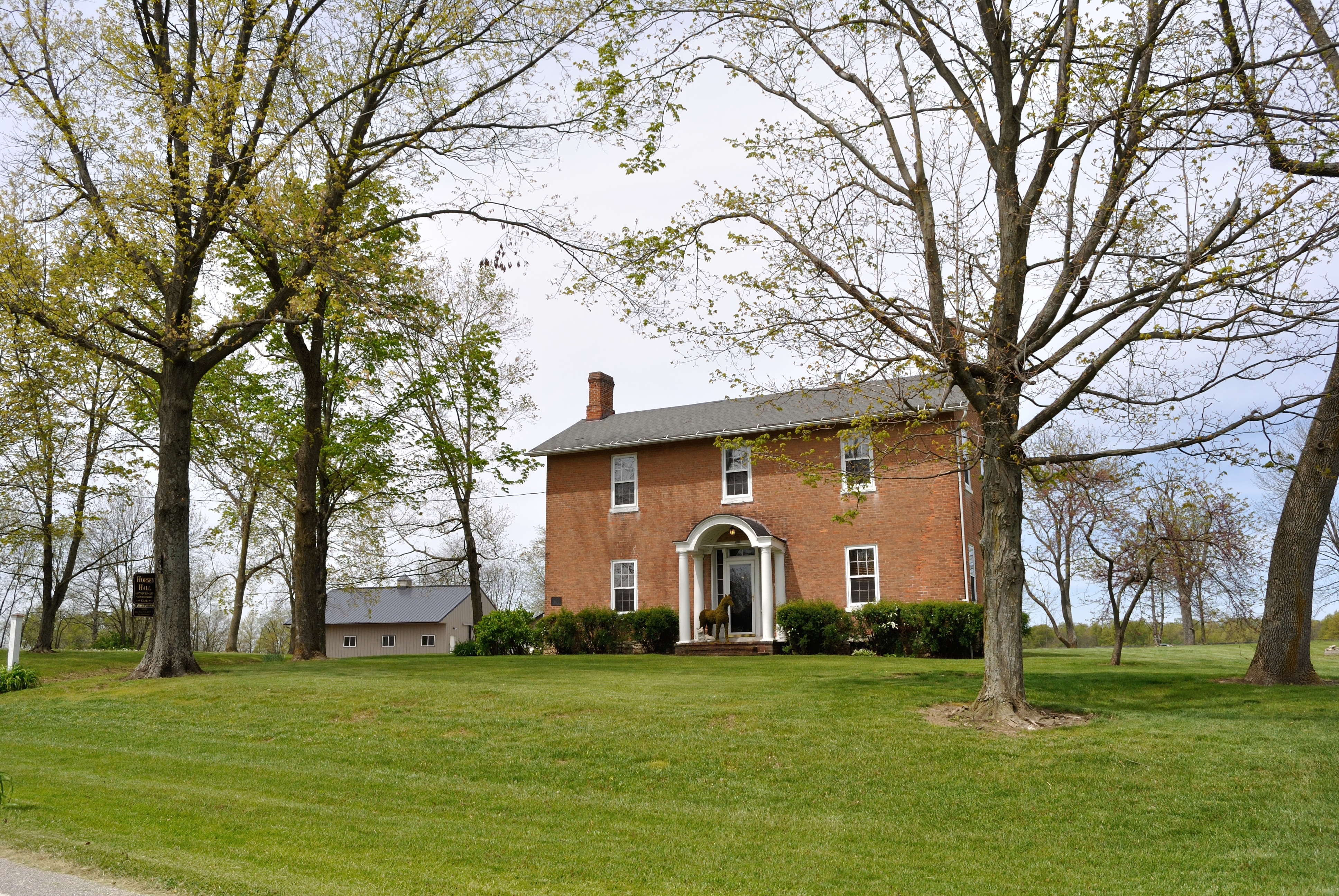 The Felkner-Anderson House near Ostrander, Ohio. Listed on the NRHP